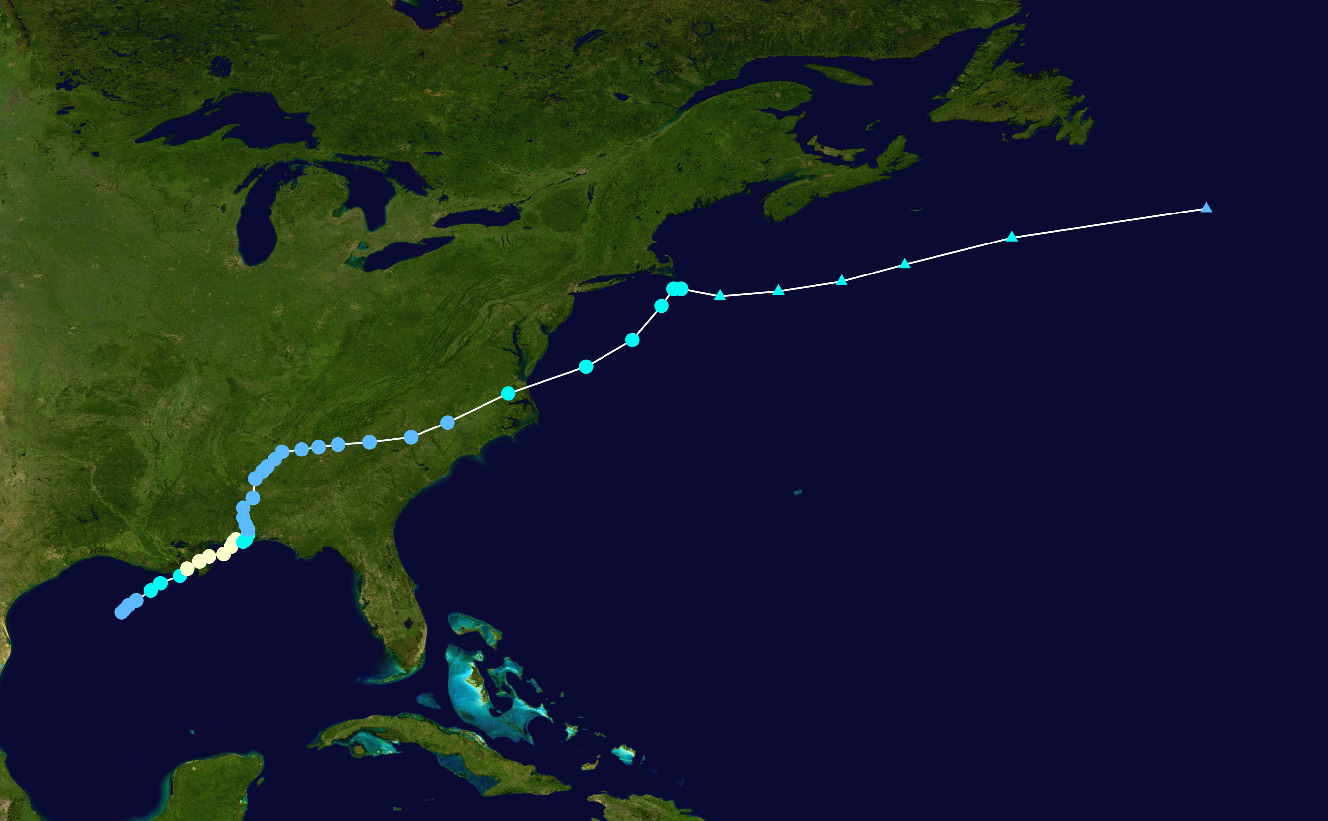 Track map of Hurricane Danny of the 1997 Atlantic hurricane season. The points show the location of the storm at 6-hour intervals. The colour represents the storm's maximum sustained wind speeds as classified in the Saffir–Simpson scale (see below), and the shape of the data points represent the nature of the storm, according to the legend below. Saffir–Simpson scale Tropical depression≤38 mph≤62 km/h Category 3111–129 mph178–208 km/h Tropical storm39–73 mph63–118 km/h Category 4130–156 mph209–251 km/h Category 174–95 mph119–153 km/h Category 5≥157 mph≥252 km/h Category 296–110 mph154–177 km/h Unknown Storm type Tropical cyclone Subtropical cyclone Extratropical cyclone / Remnant low / Tropical disturbance / Monsoon depression